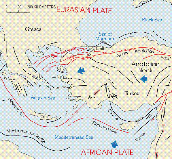 The tectonic map of Turkey includes the North Anatolian fault, East Anatolian fault, and Hellenic and Florence trenches. The westward movement of the Anatolian block results from (1) differences in rates of motion between the Arabian and African plates, (2) different directions of motion between the Anatolian block and Eurasian plate to the north, and (3) subduction of the African plate beneath the Anatolian block at the Hellenic and Florence trenches. The Arabian plate is moving to the north faster than the African plate, both relative to a stable Eurasian plate. The result is a westward moving wedge incorporating most of Turkey.